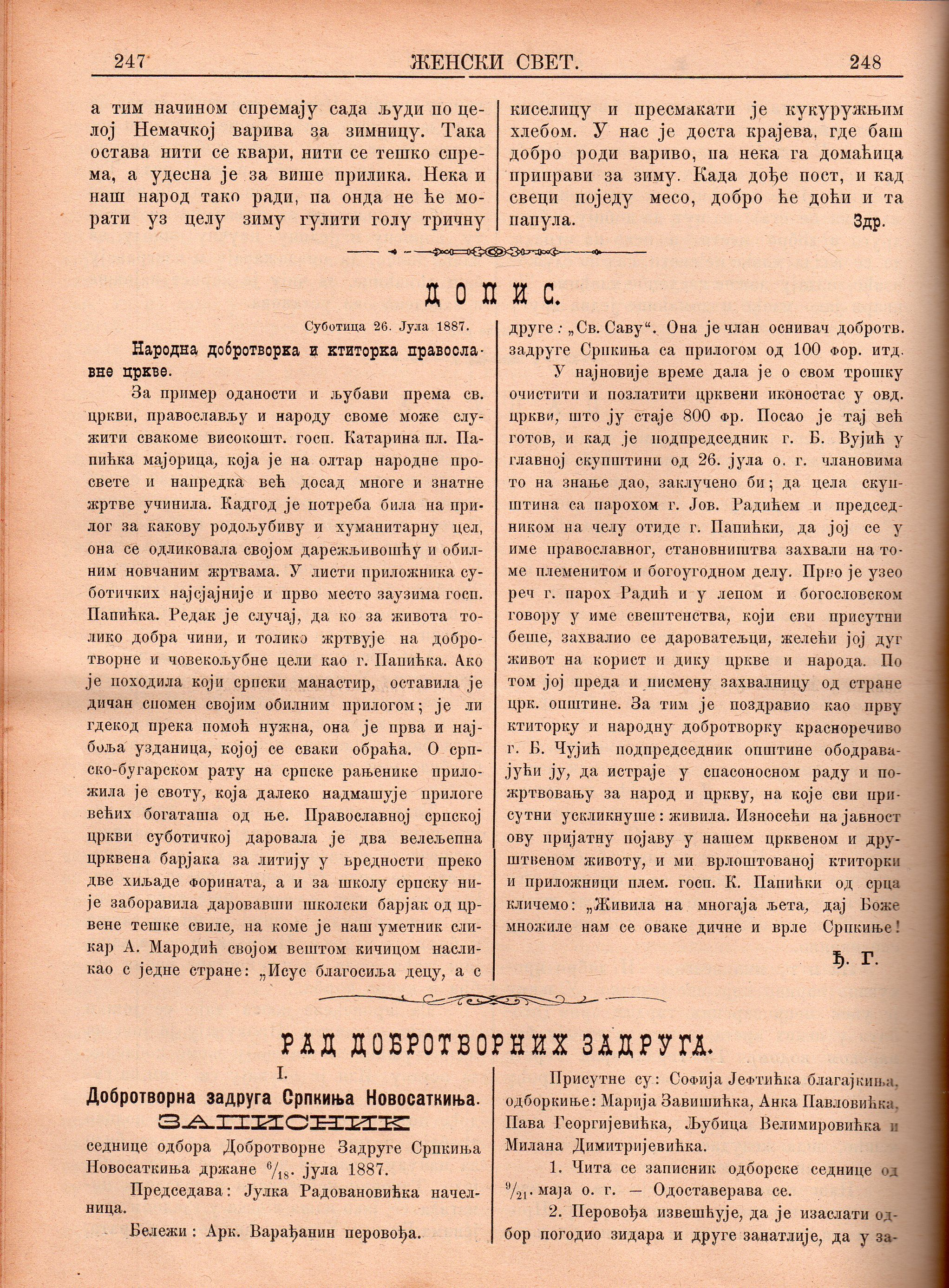 Ženski svet, magazine, number 8, page 247, 1887, Novi Sad, article about charity organizations.